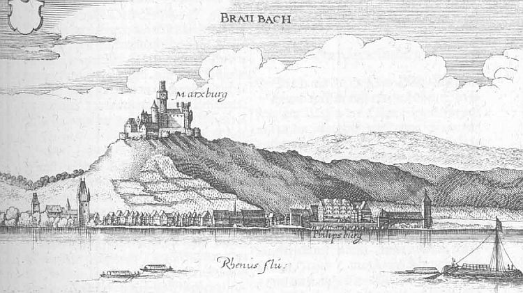 This is a scan of the historical document: Title: Braubach - Topographia Hassiae language: german